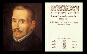 Lope de Vega. Arte nuevo de hacer comedias